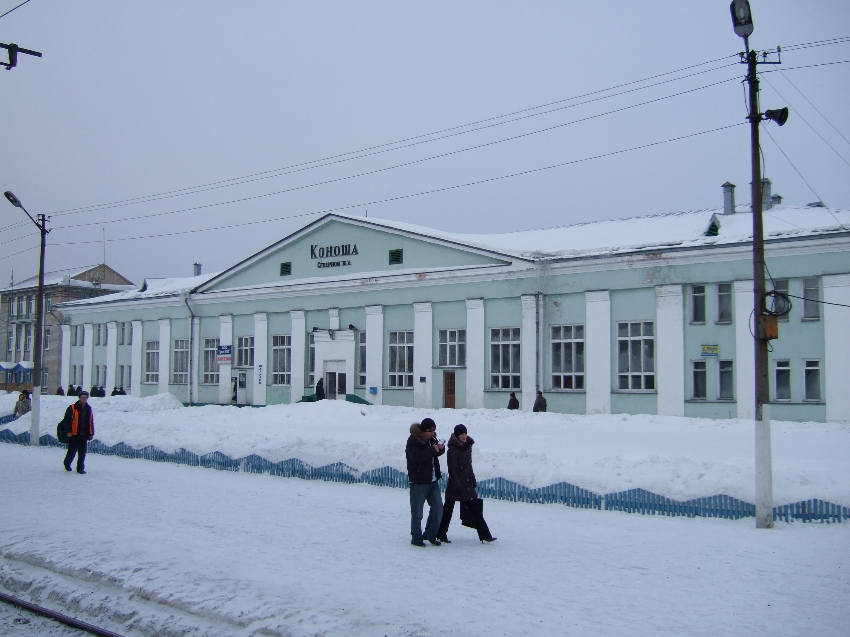 Konosha train station